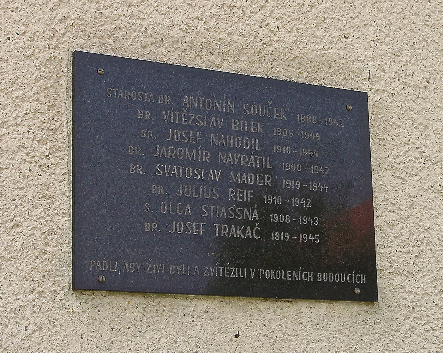 Monument victims of nazis era repression victims at years 1939-1945 on former Sokol building in Bučovice